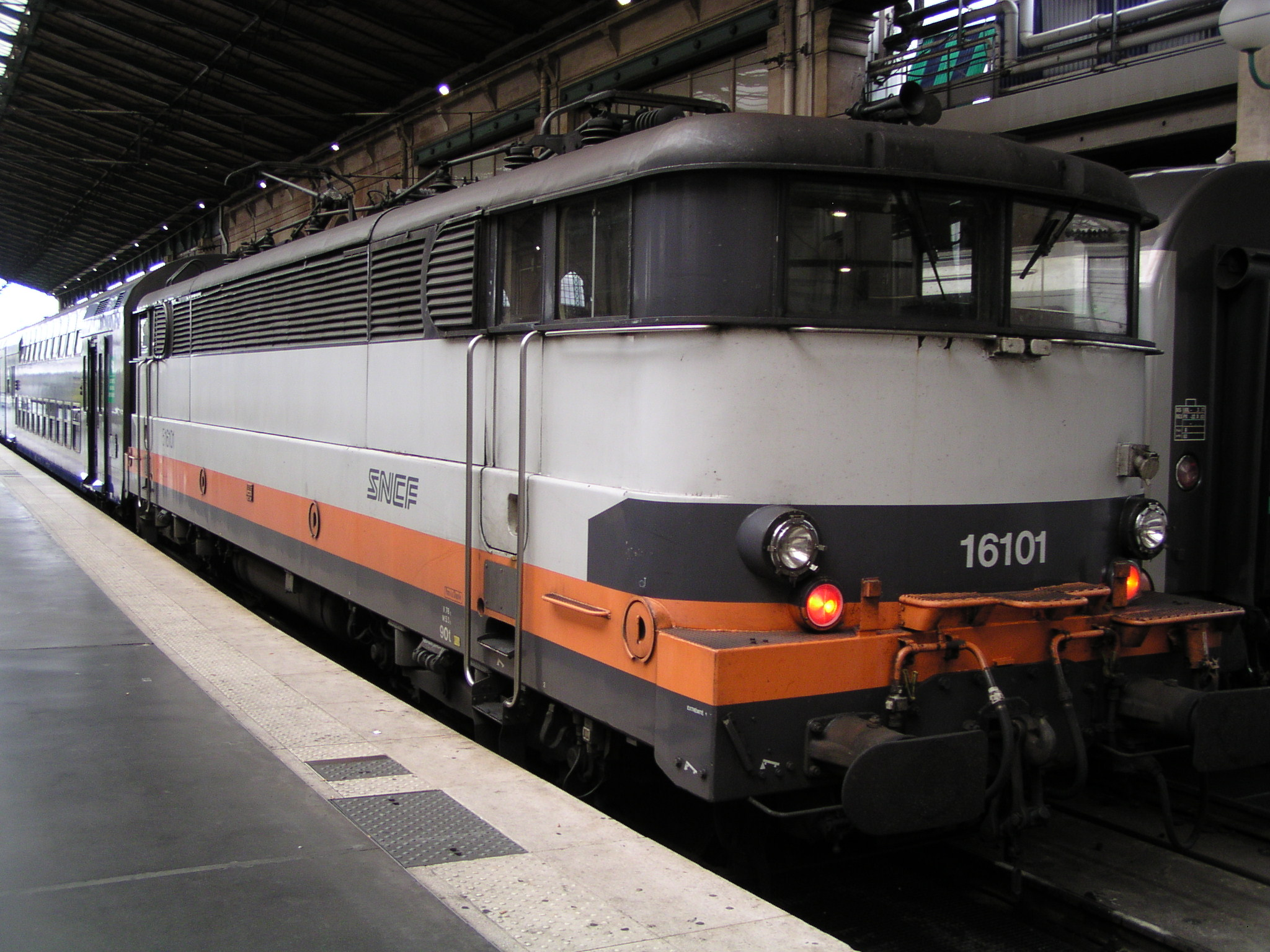 SNCF Class BB 16100, no. BB 16101 at Paris Gare du Nord on 5th September 2005. Image by Phil Scott (Our Phellap)